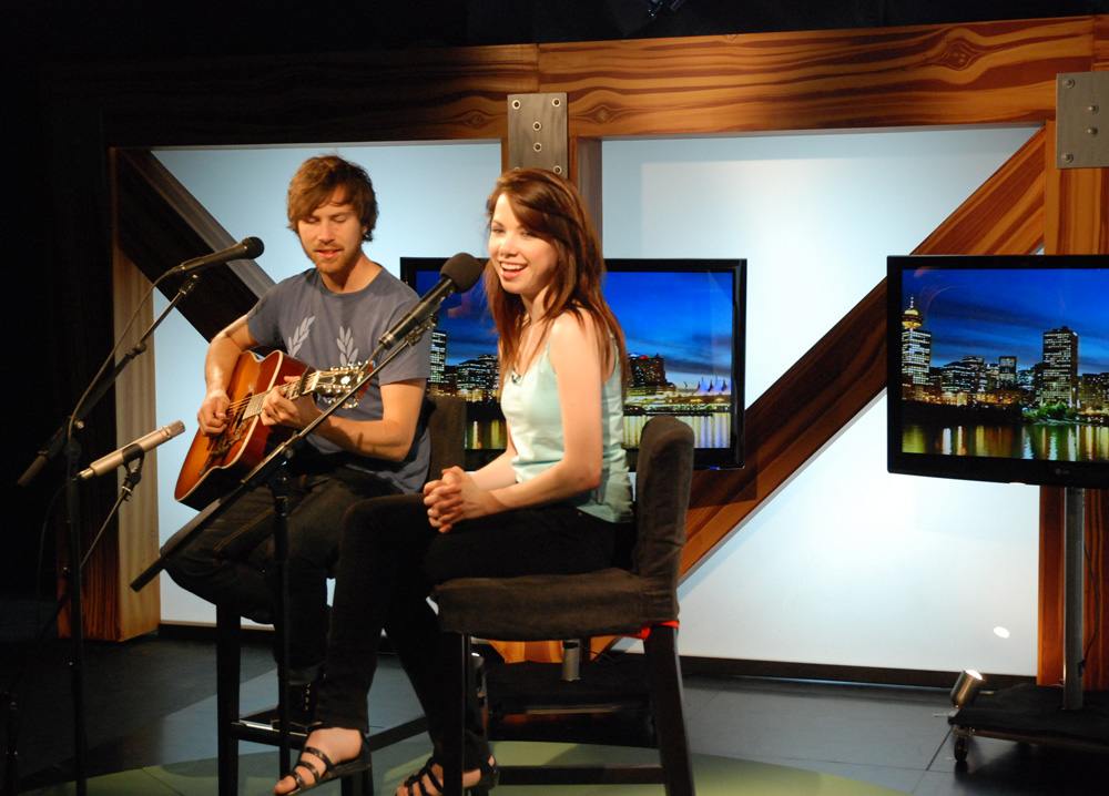 P3 Carly Rae Jepsen 2